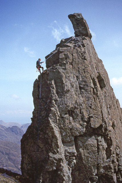 Inaccessible Pinnacle Abseiling down the west ridge (the shortest route to "safe" ground).